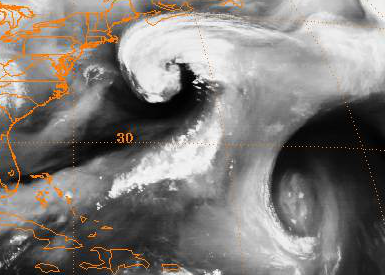 Hurricane Gabrielle, generating a trough, precursor of hurricane Humberto, with a cutoff low approaching. This cutoff low will interact favorably with the trough to spawn Humberto. It is a water vapor image.